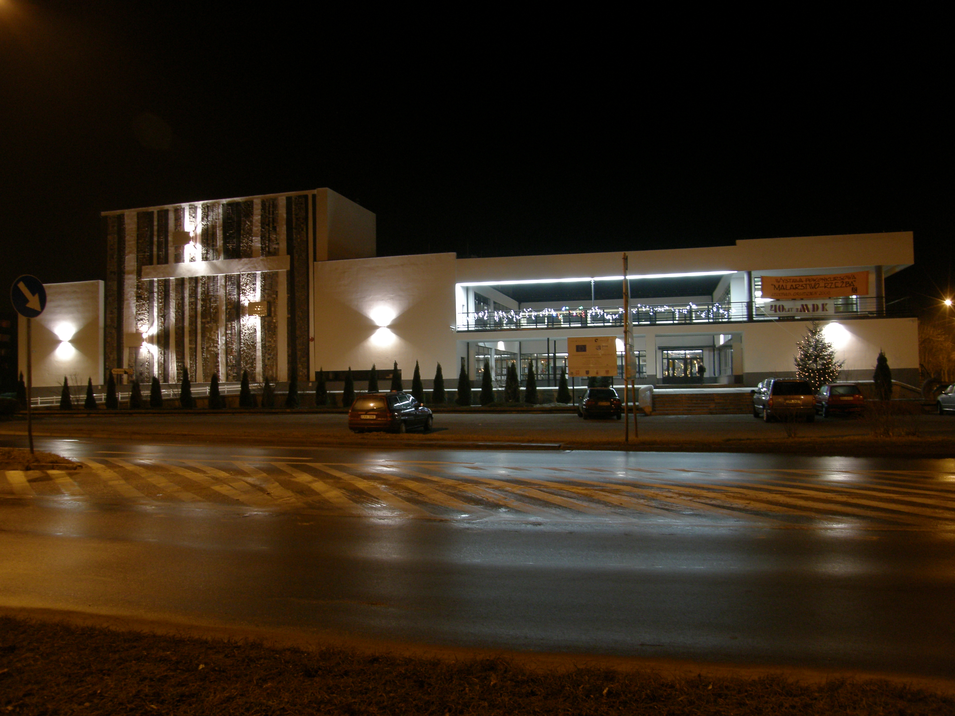 MDK in Radomsko